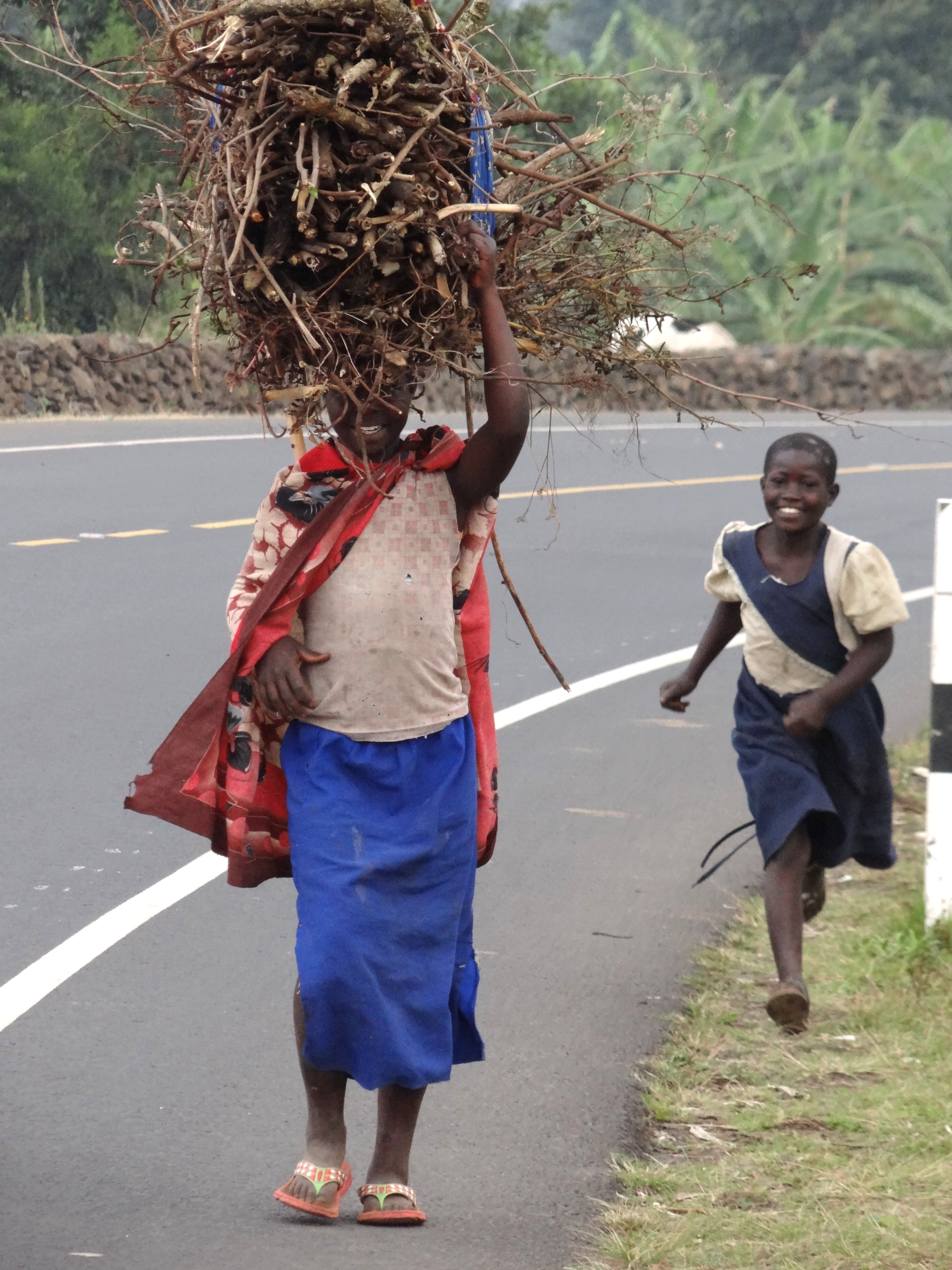 Girl Carrying Firewood and Friend Running - Outside Kisoro - Southwestern Uganda